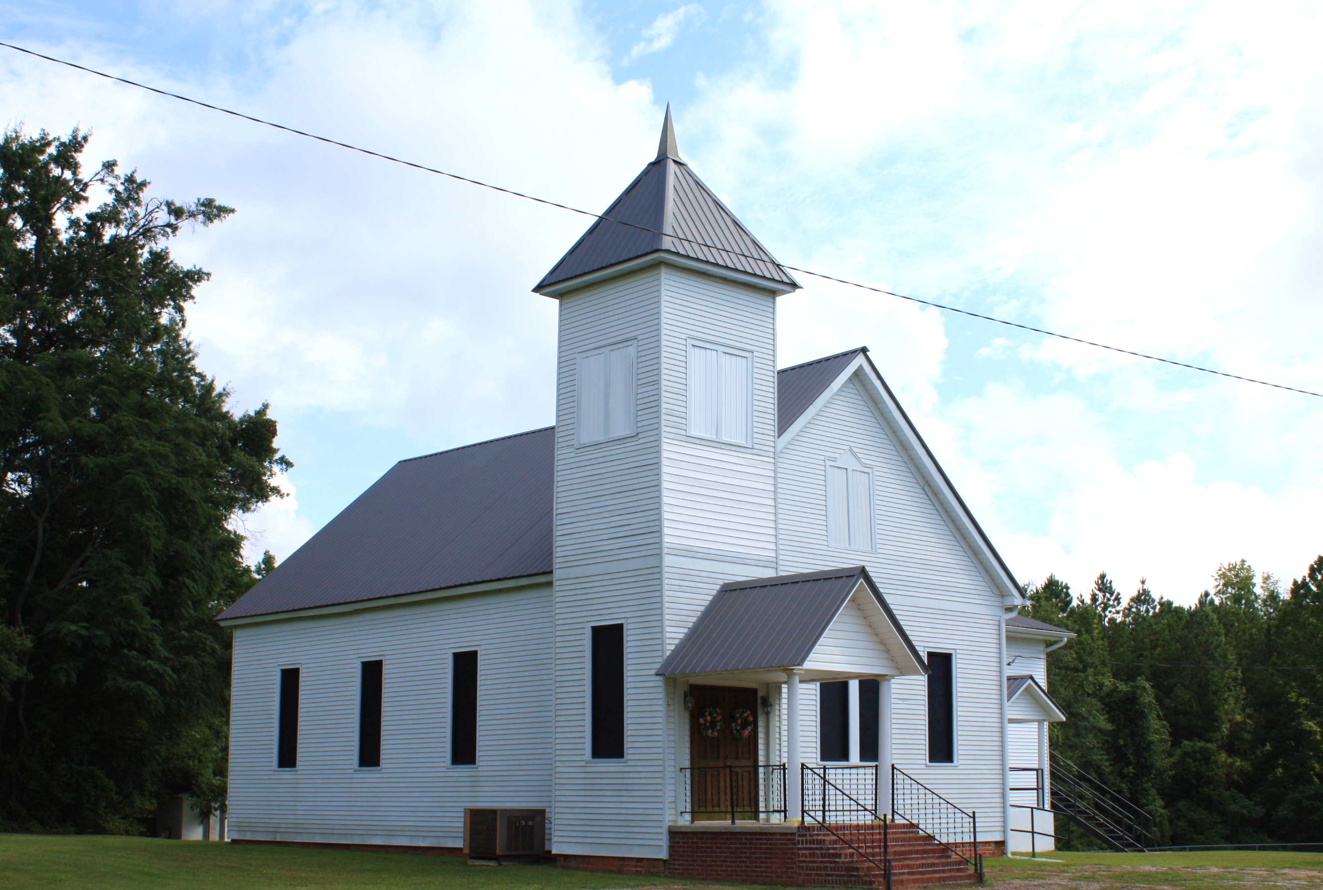 Vineland Baptist Church in Vineland, Marengo County, Alabama. Established in 1912, building completed in 1913.